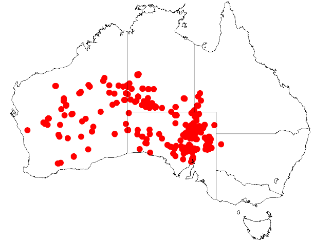 Scaevola collaris occurrence data from Australasian Virtual Herbarium downloaded 12 May 2019 (no doi)